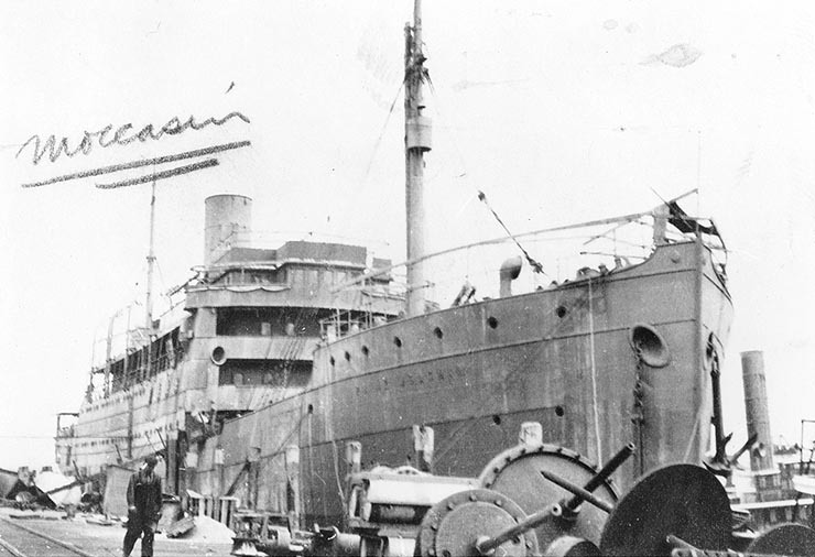 Passenger-cargo ship SS Moccasin, formerly the German SS Prinz Joachim probably just after being taken over by the United States Shipping Board in 1917, with Prinz Joachim still painted on her bow. She later served in the US Navy as refrigerated cargo ship USS Moccasin (ID-1322).